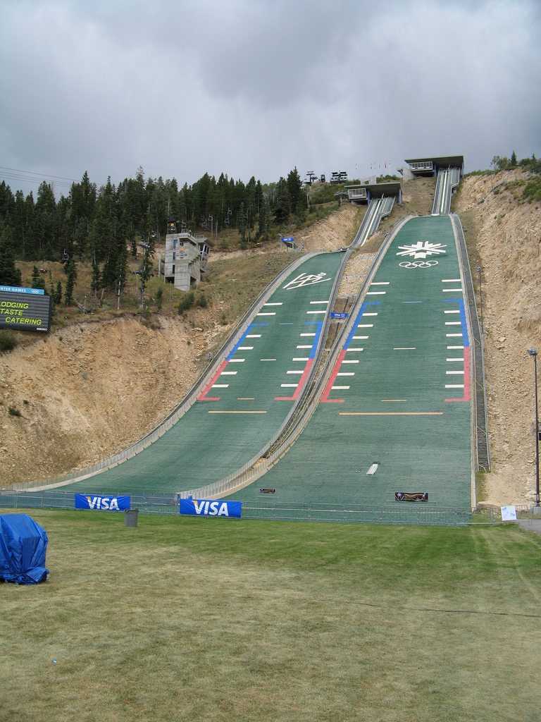 Ski jumping hill at Utah Olympic Park, Park CityK120 Salt Lake hill